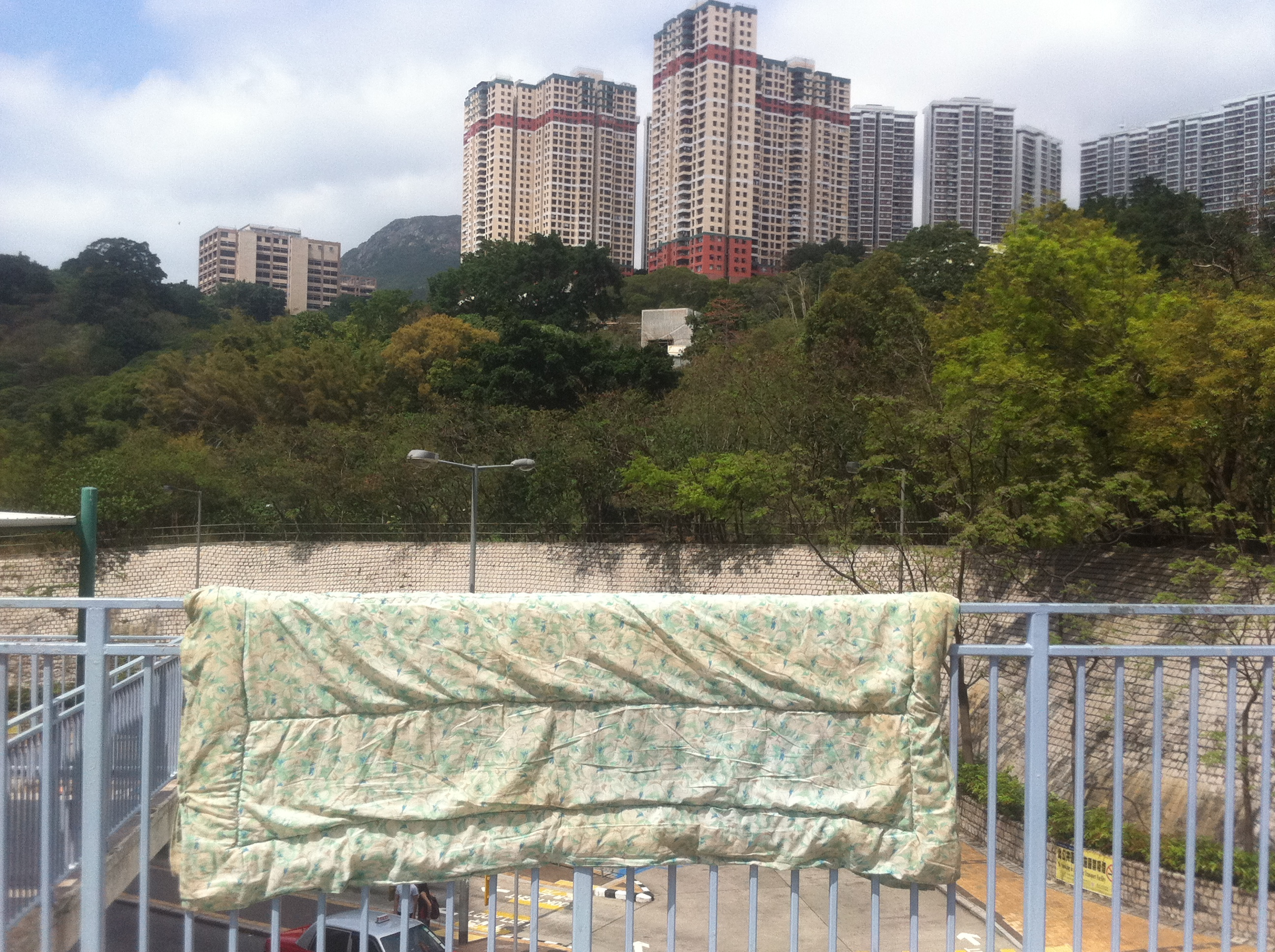 華富邨 Wah Fu Estate views Pok Fu Lam Gardens